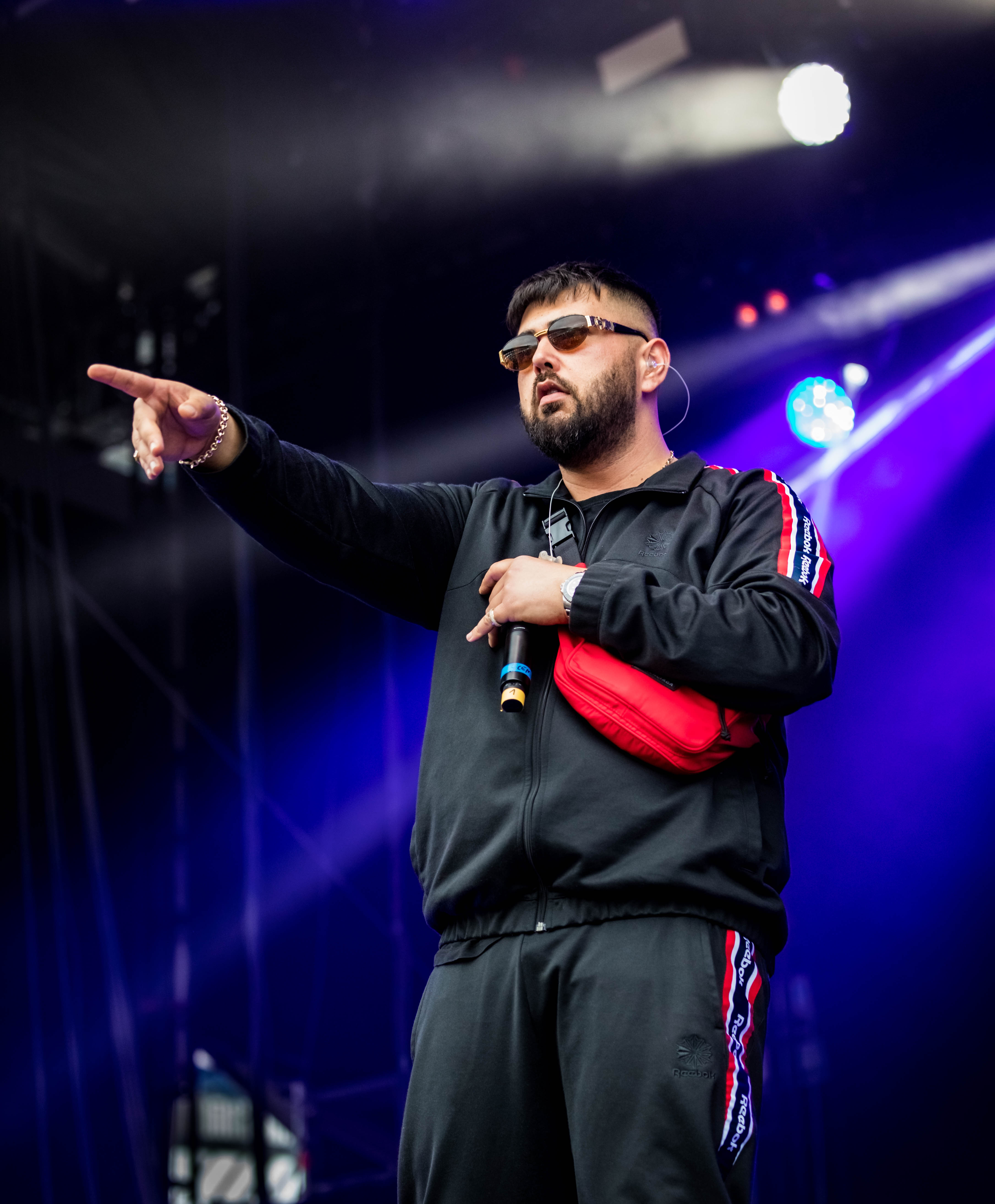 Summer Cem - Rock am Ring 2018